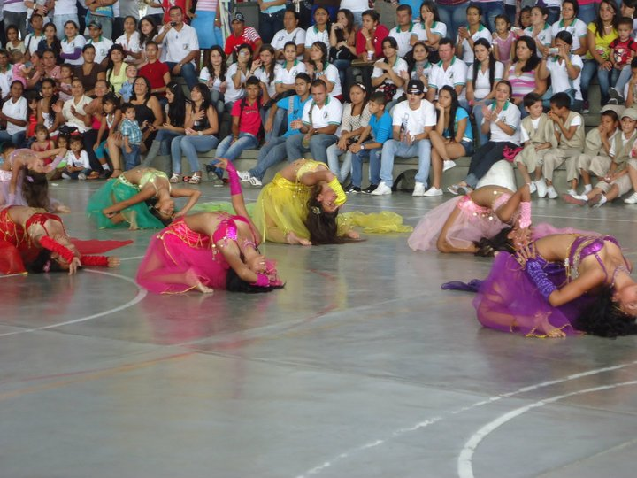 Grupo "Al Son Que Me Toquen Bailo" danzando música árabe, una de sus muestras artísticas y culturales.